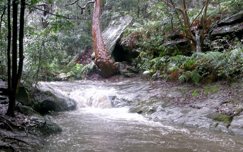 Swaines Creek with cave, Hawkesbury Sandstone, Watergum & Angophora; at Chatswood West, Australia